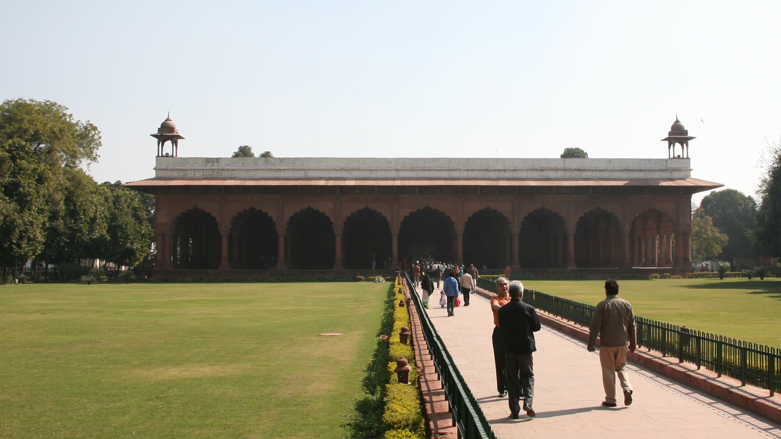 Diwan-i-Am at the Red Fort, Delhi